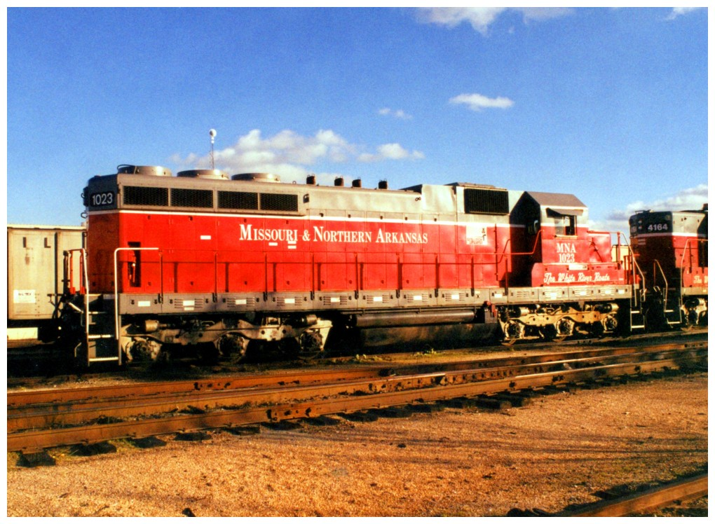 Missouri & Northern Arkansas #1023, ICG SD20. Rebuild of SD24.